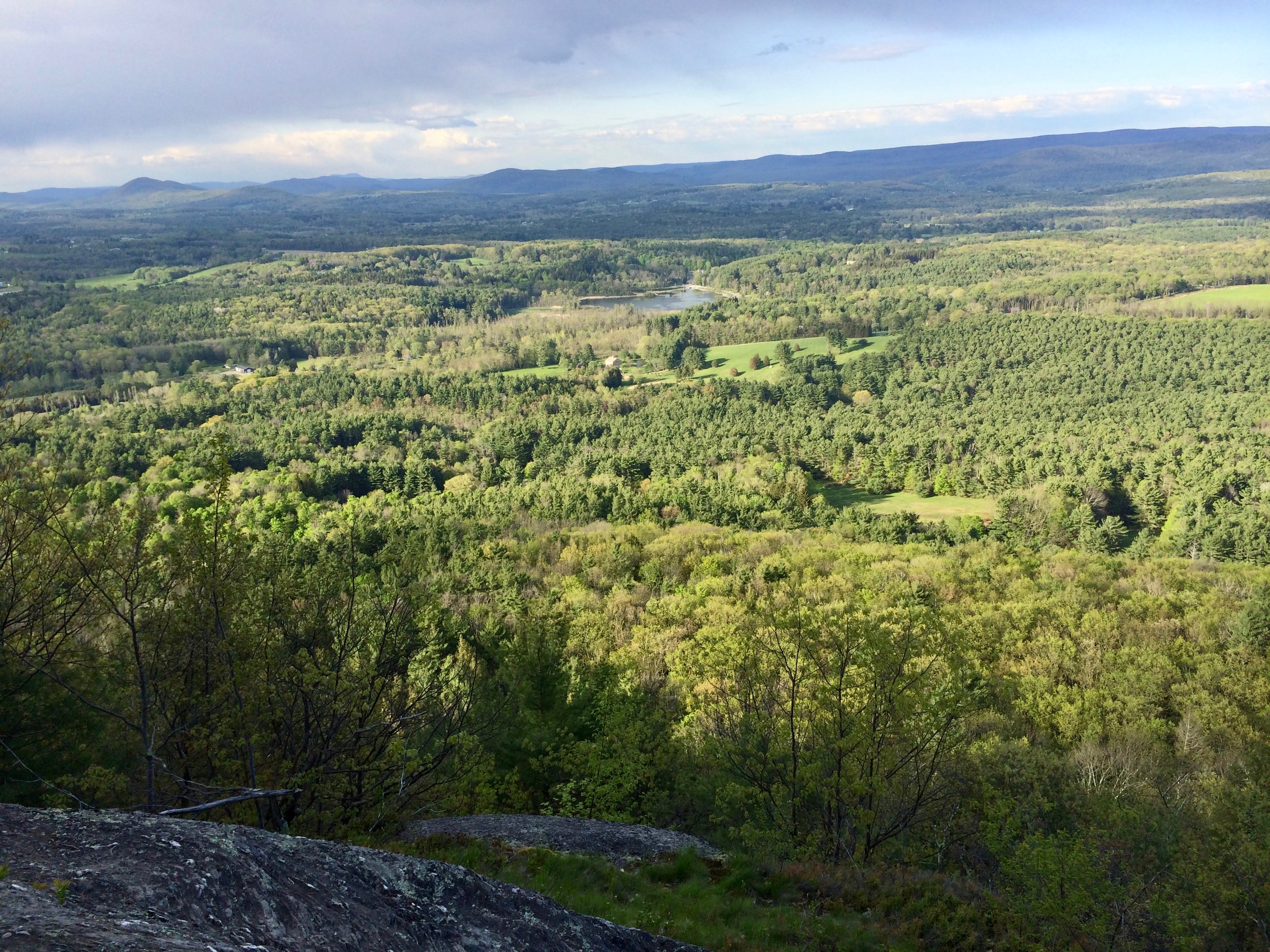 View from Jug End peak on Appalachian Trail east of Jug End State Reservation-WMA "Guilder Hollow Road" block.